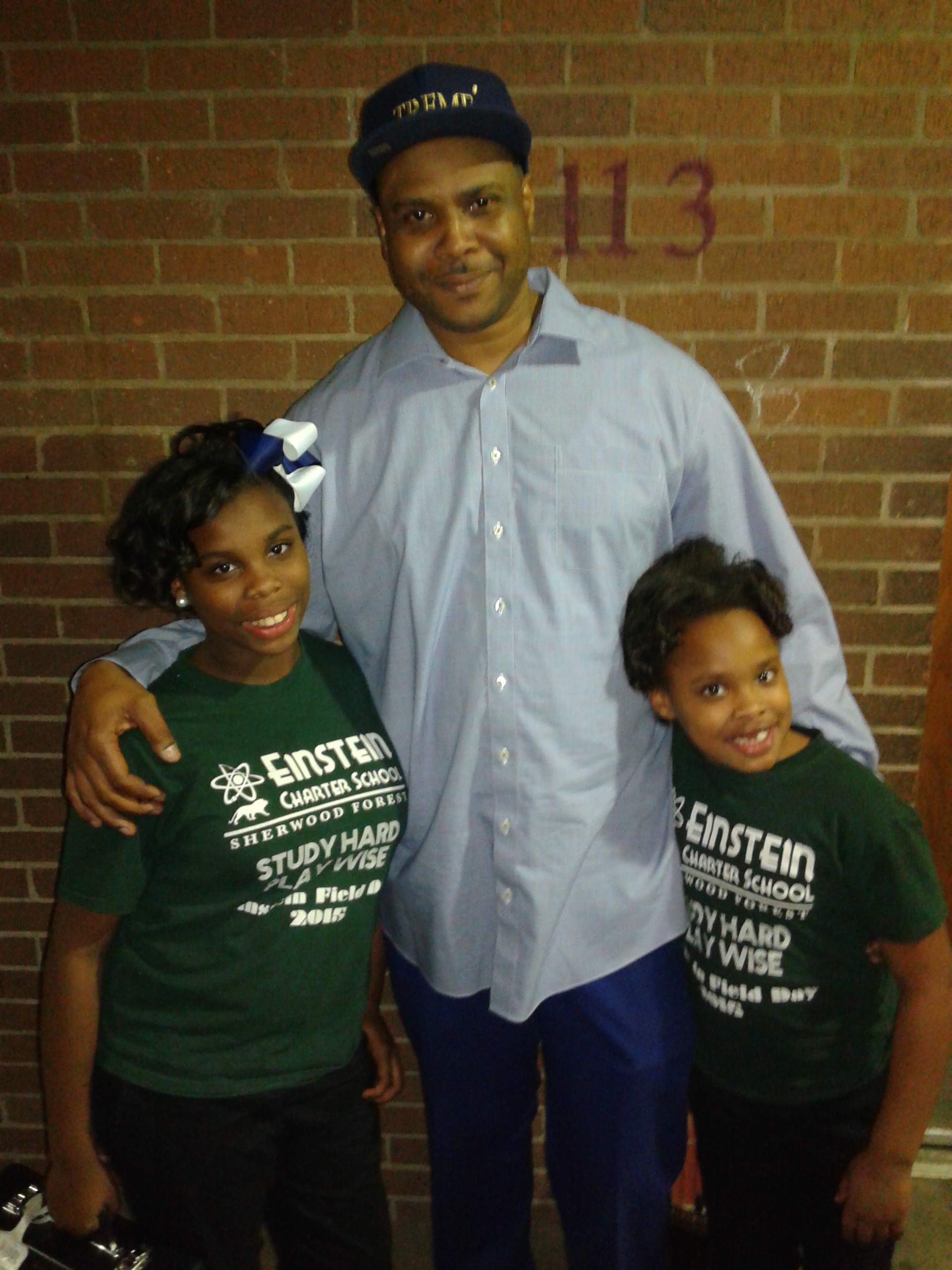 Roots of Music co-founder and Rebirth Brass Band snare drummer, Derrick Tabb, with two Roots of Music students 12/8/2015